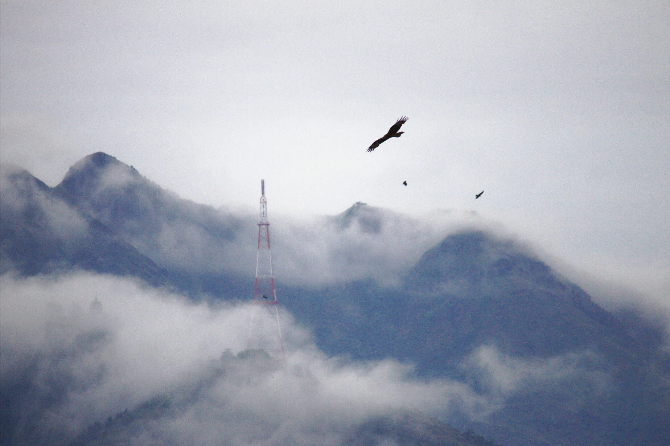 View of Koh-i-Sulaiman (Shankaracharya Hill) from Srinagar city on an overcast morning.